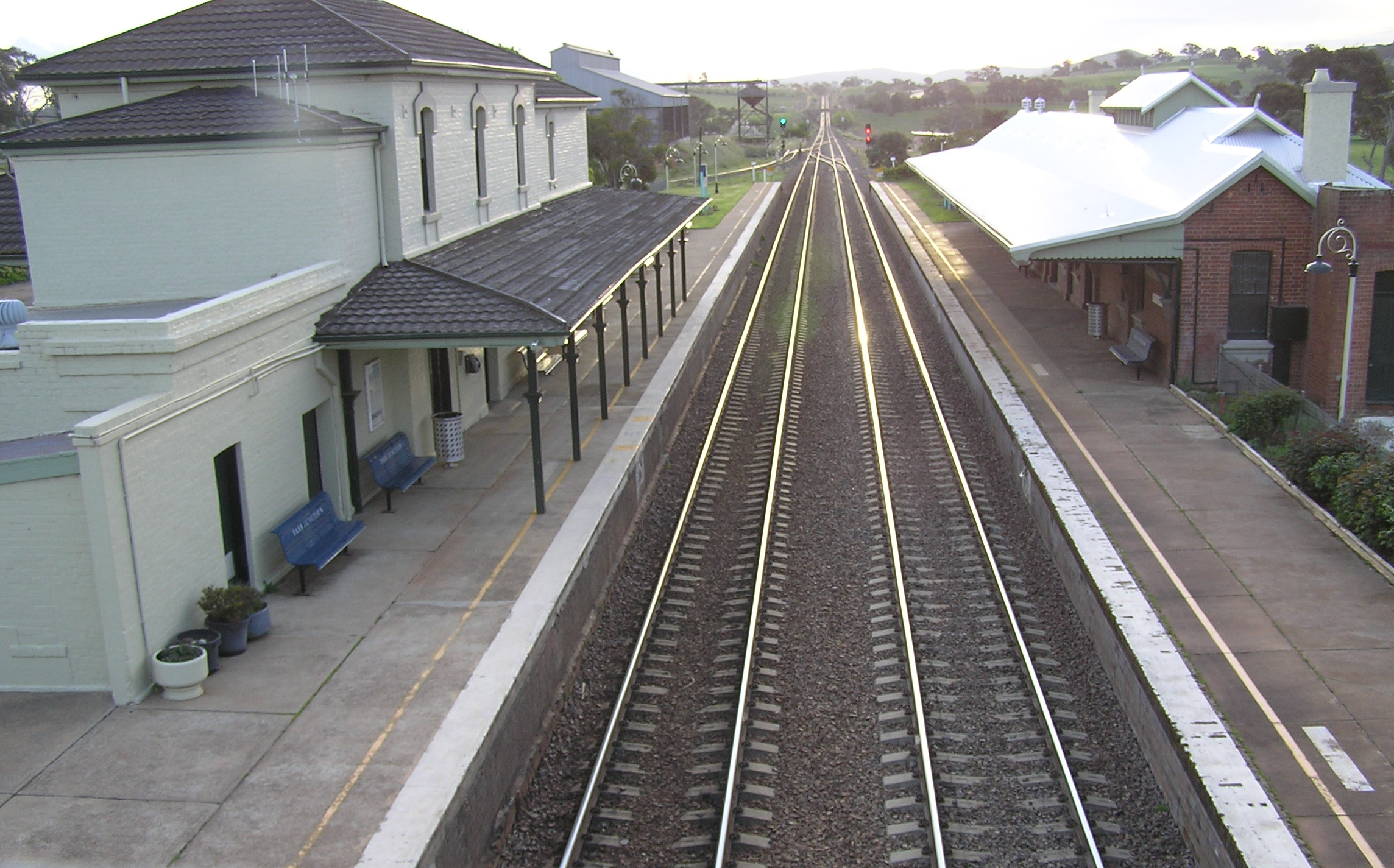 Yass Junction Railway